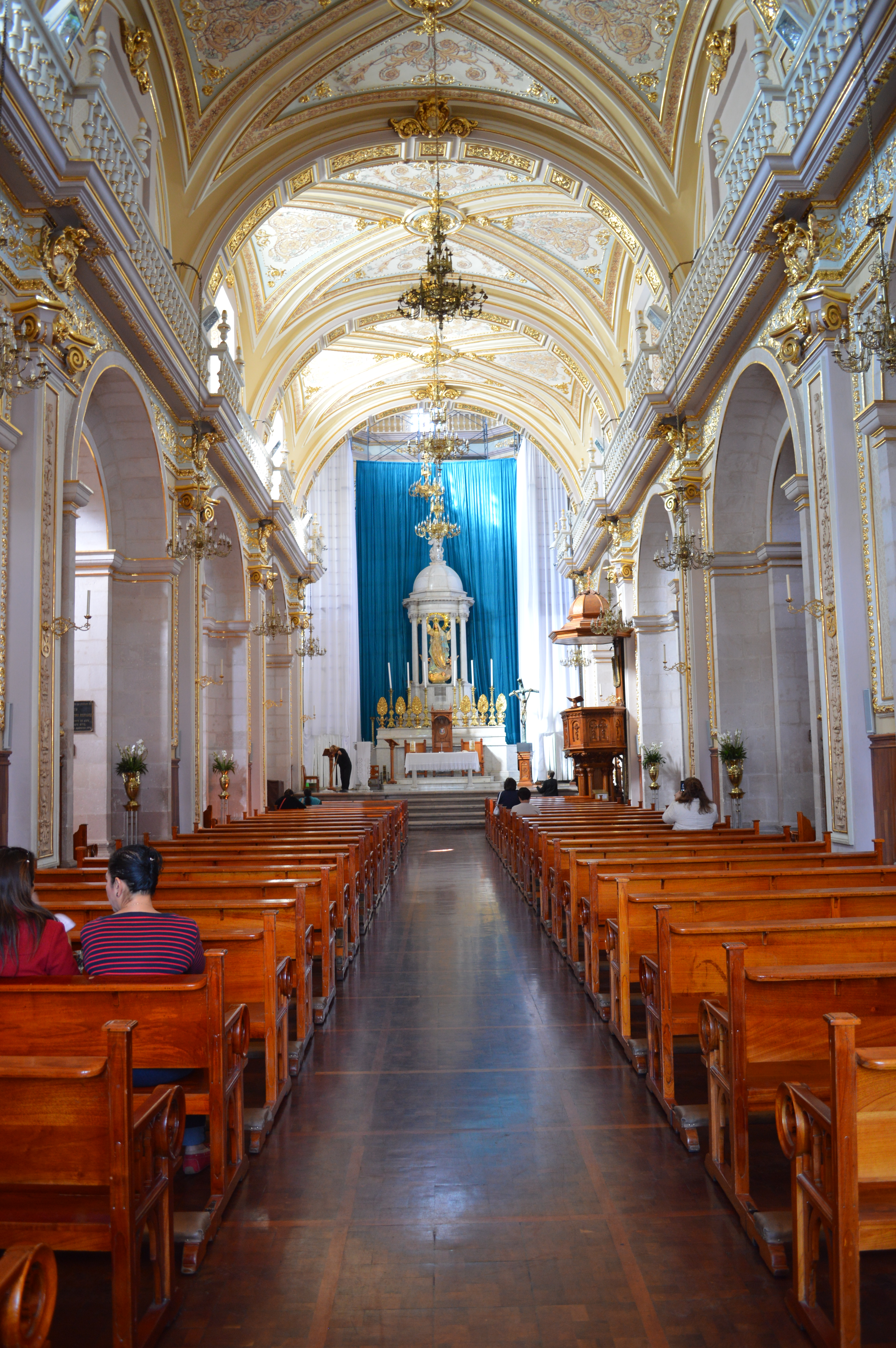 Nave of the Cathedral of Aguascalientes in the city of Aguascalientes, Mexico